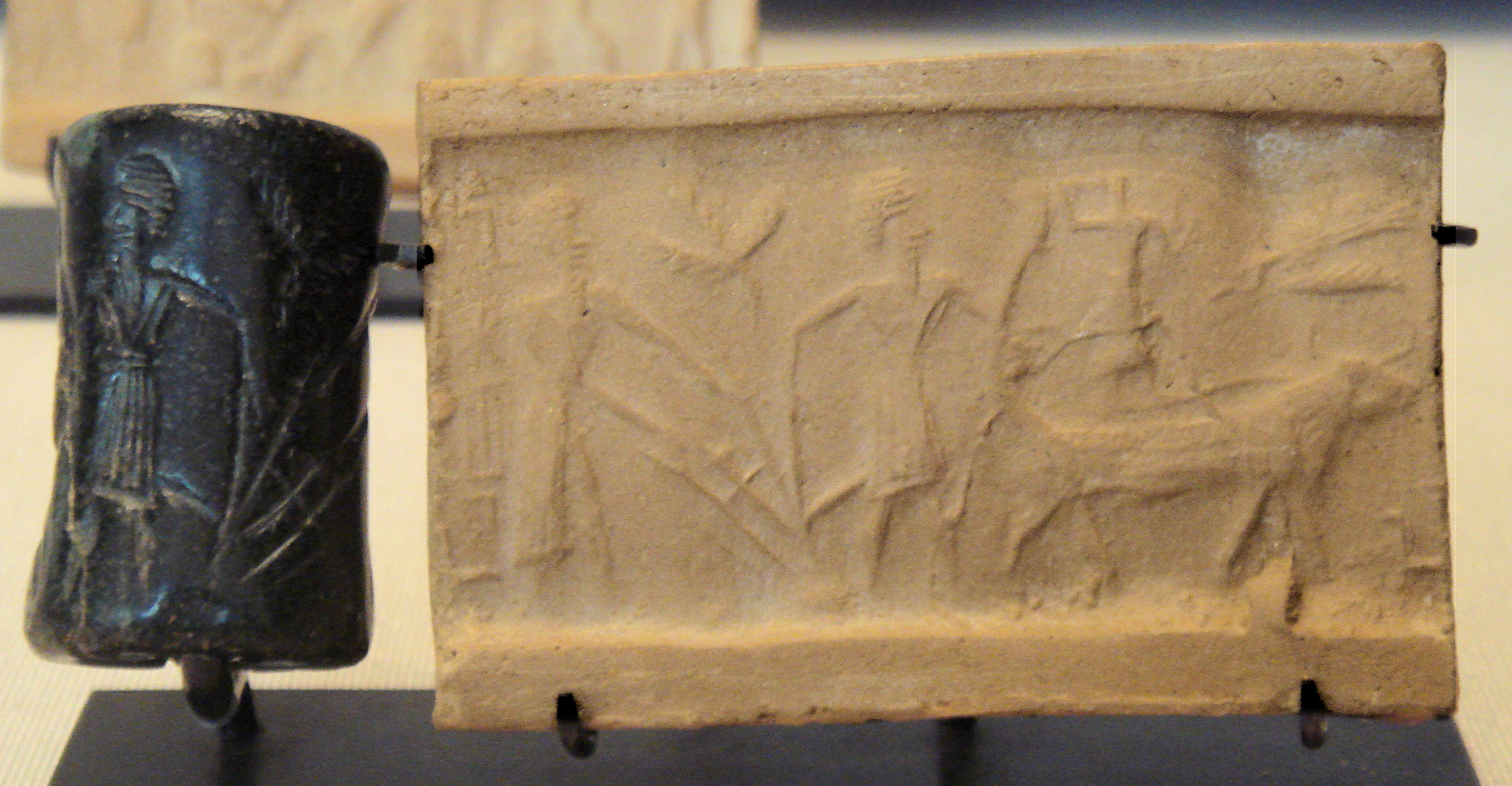 Akkadian seal Agricultural scene Louvre Museum